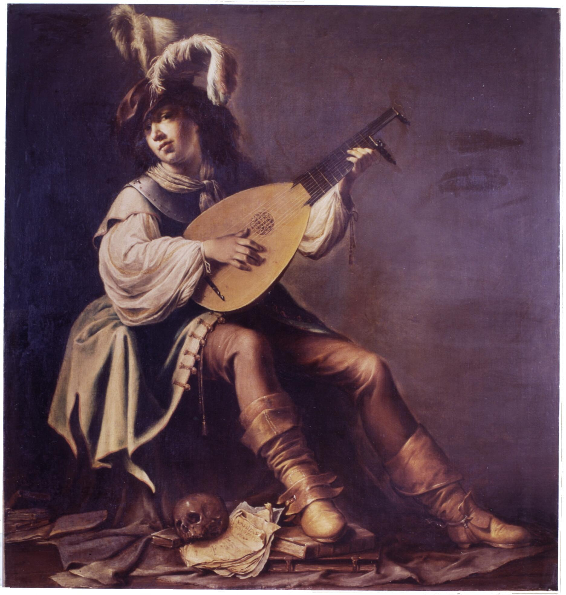 Lute player with skull and books This image is available from the Netherlands Institute for Art Historyunder digital ID 53427. This tag does not indicate the copyright status of the attached work. A normal copyright tag is still required. See Commons:Licensing.